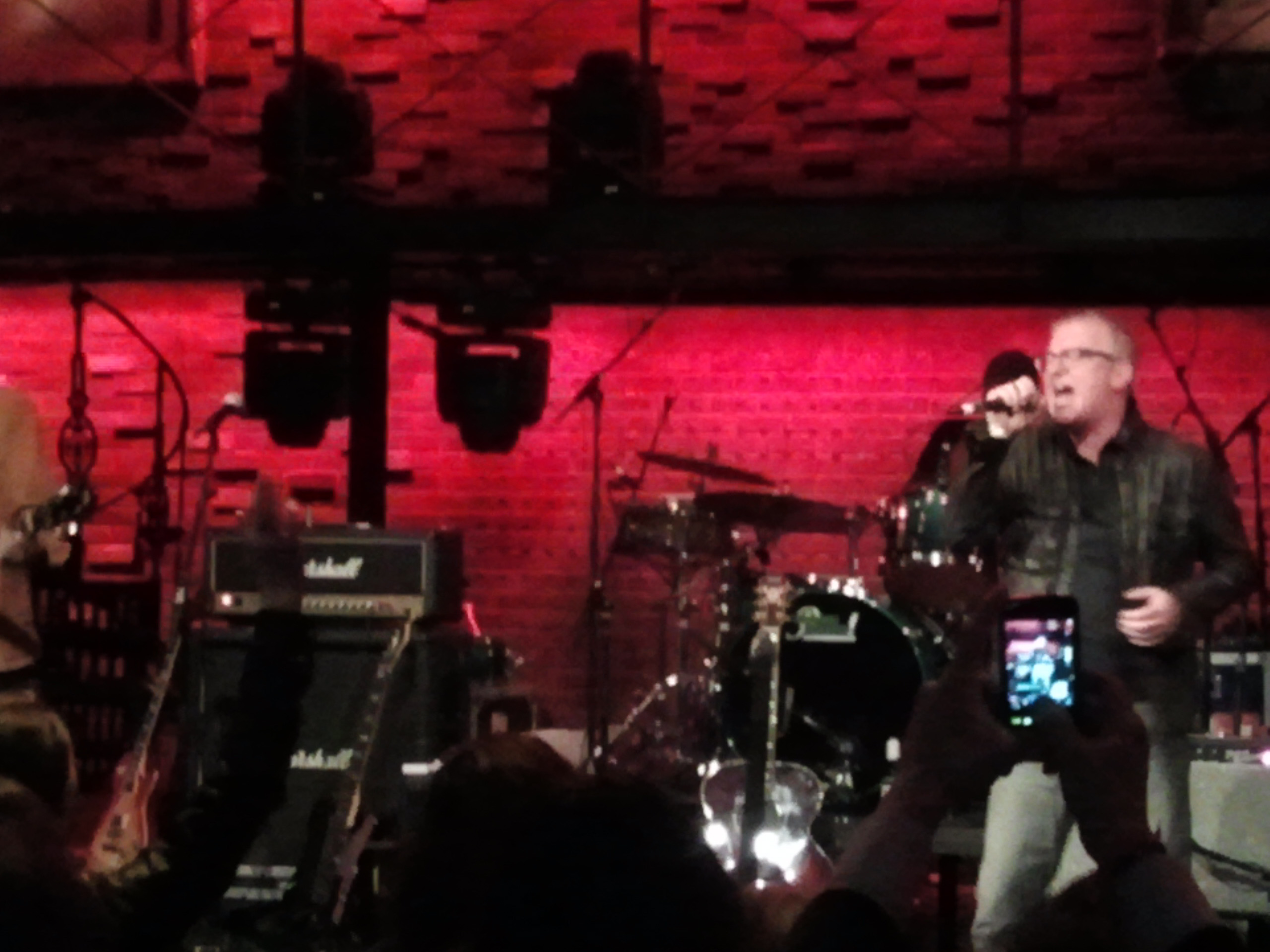 Alan Frew performing with Glass Tiger on 26/3/11.